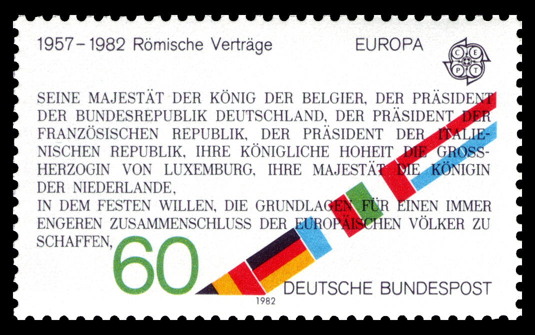 25 years Treaty of Rome Ausgabepreis: 60 Pfennig First Day of Issue / Erstausgabetag: 5. Mai 1982 Michel-Katalog-Nr: 1131 Designer: Blase